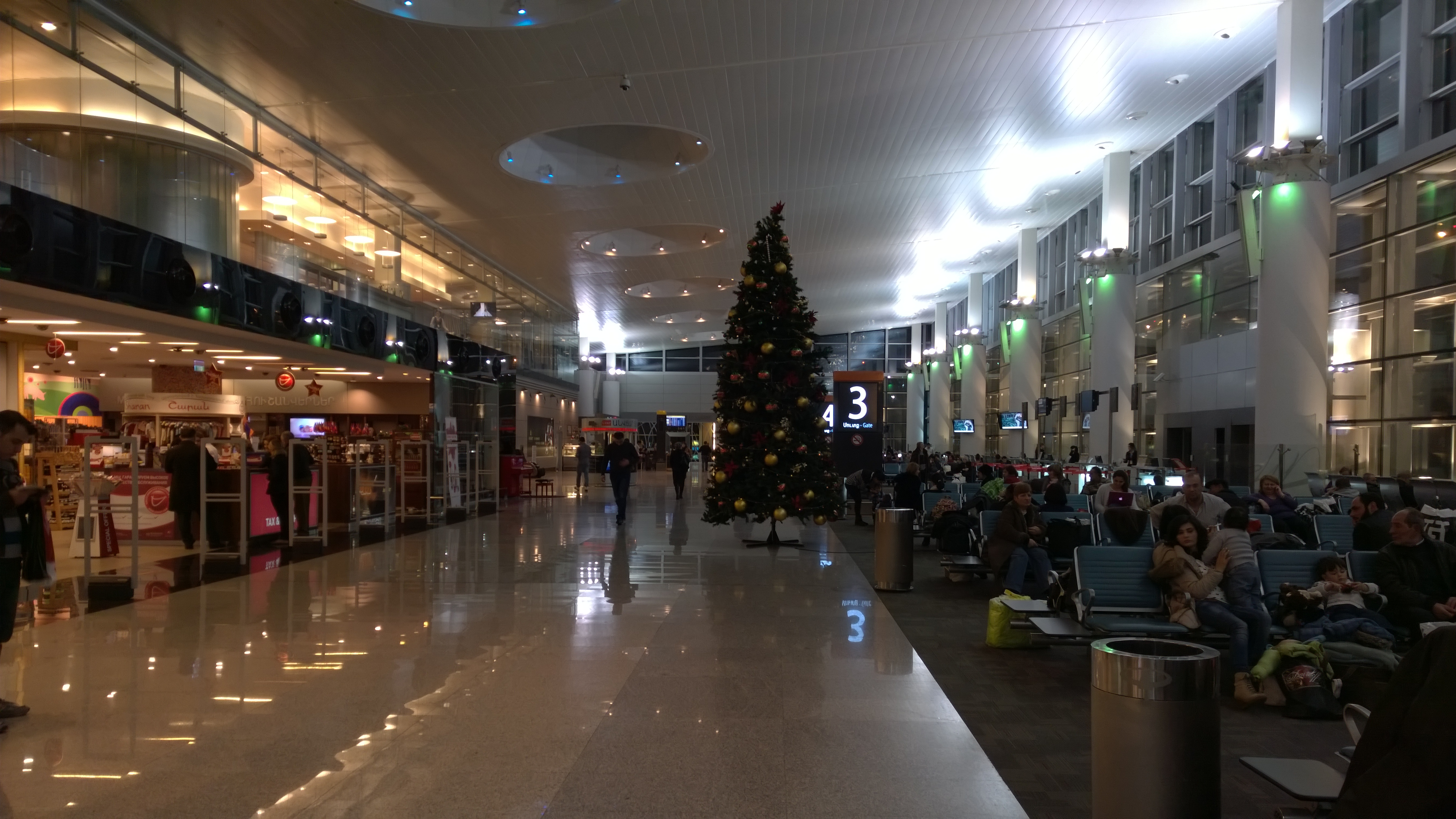 ZvartnotsI nternational Airport Interieur